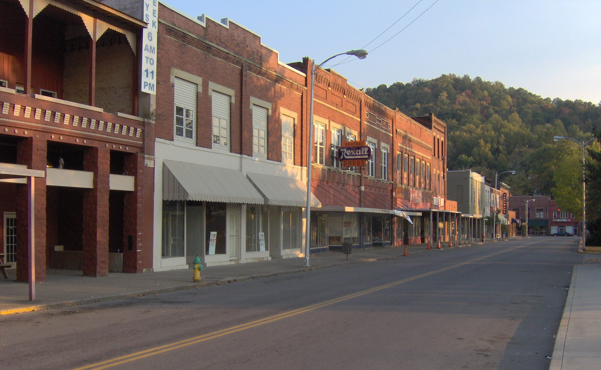 North Main Street in Jellico, Tennessee, in the southeastern United States. North Main Street is part of the Jellico Commercial Historic District.